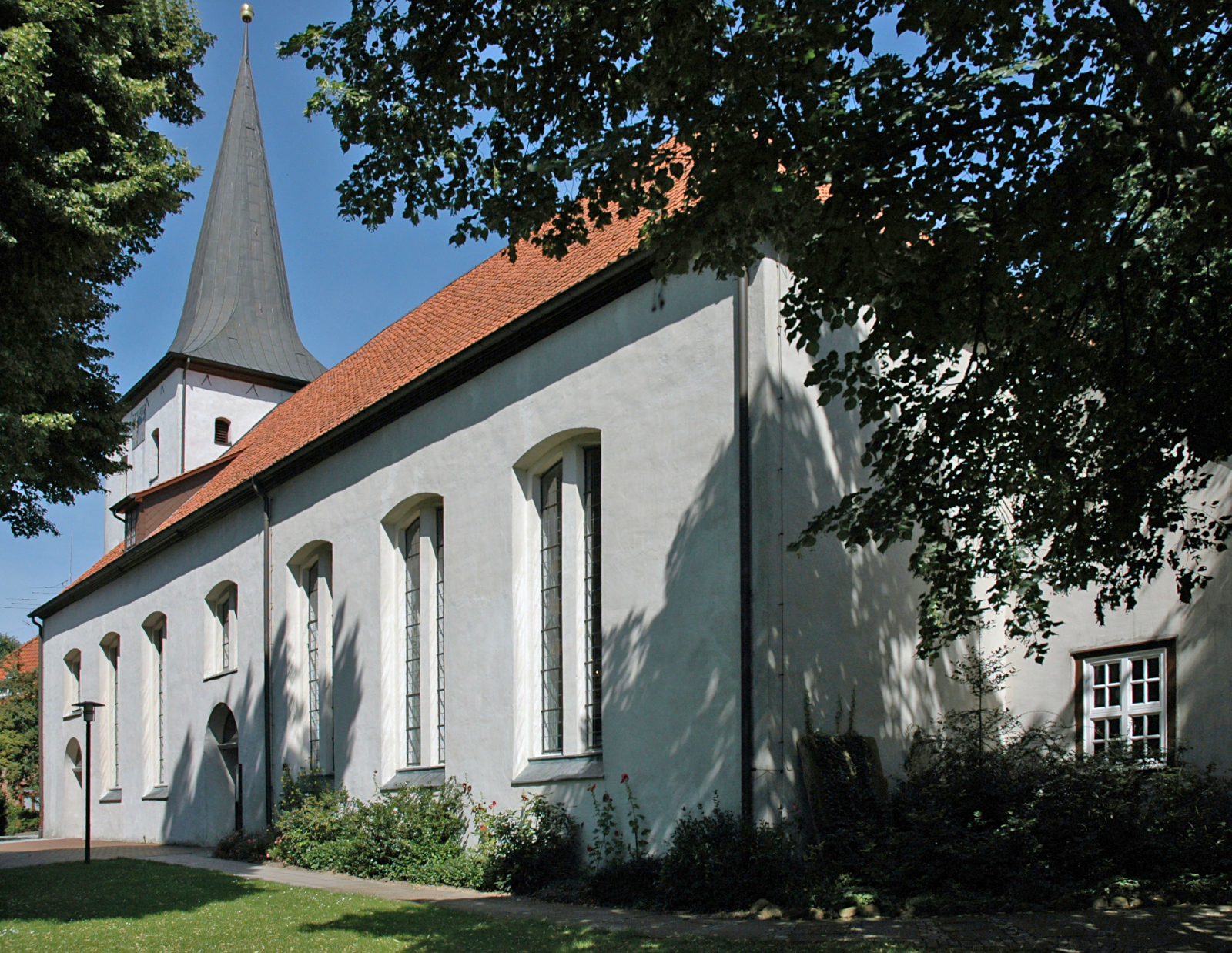 The St. Lucas-Church in Scheeßel, south-eastern aspect